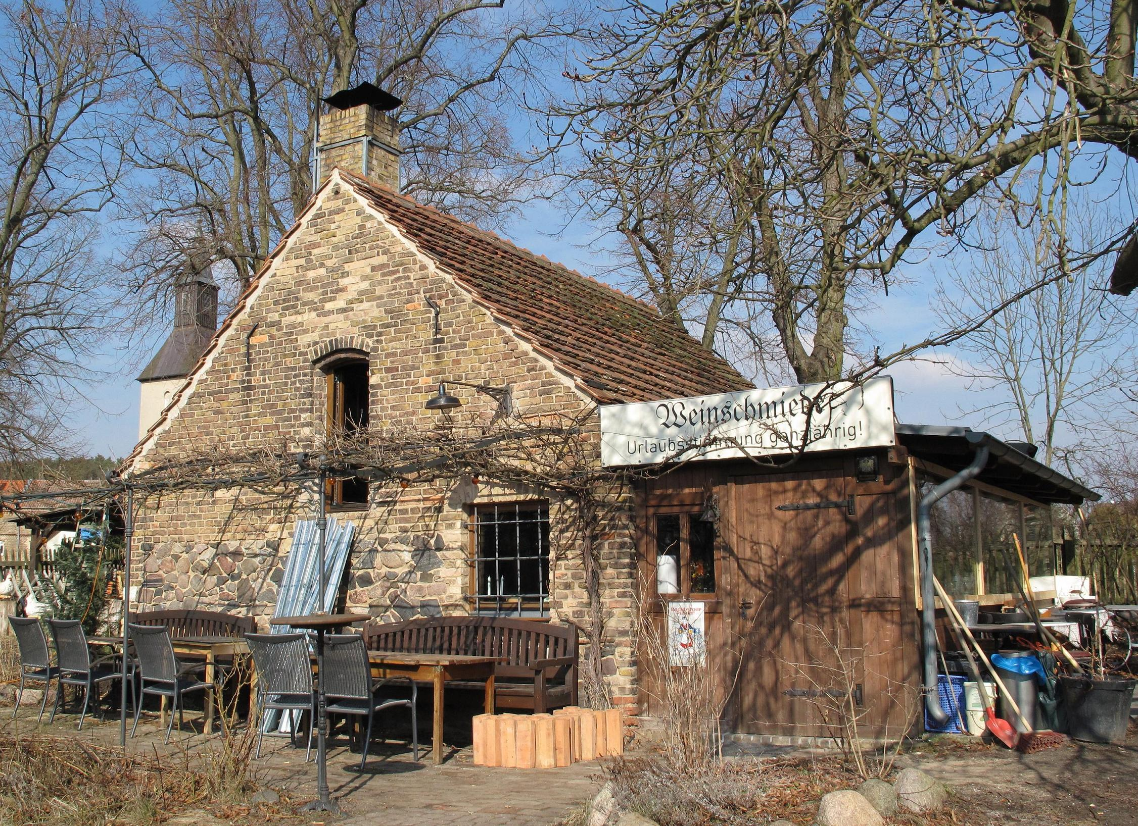 Around 200 years old and listed former forge in Fresdorf, since 1993 used as wine bar (called „Weinschmiede“). Fresdorf is a part of Michendorf in the district Potsdam-Mittelmark, state Brandenburg, Germany.